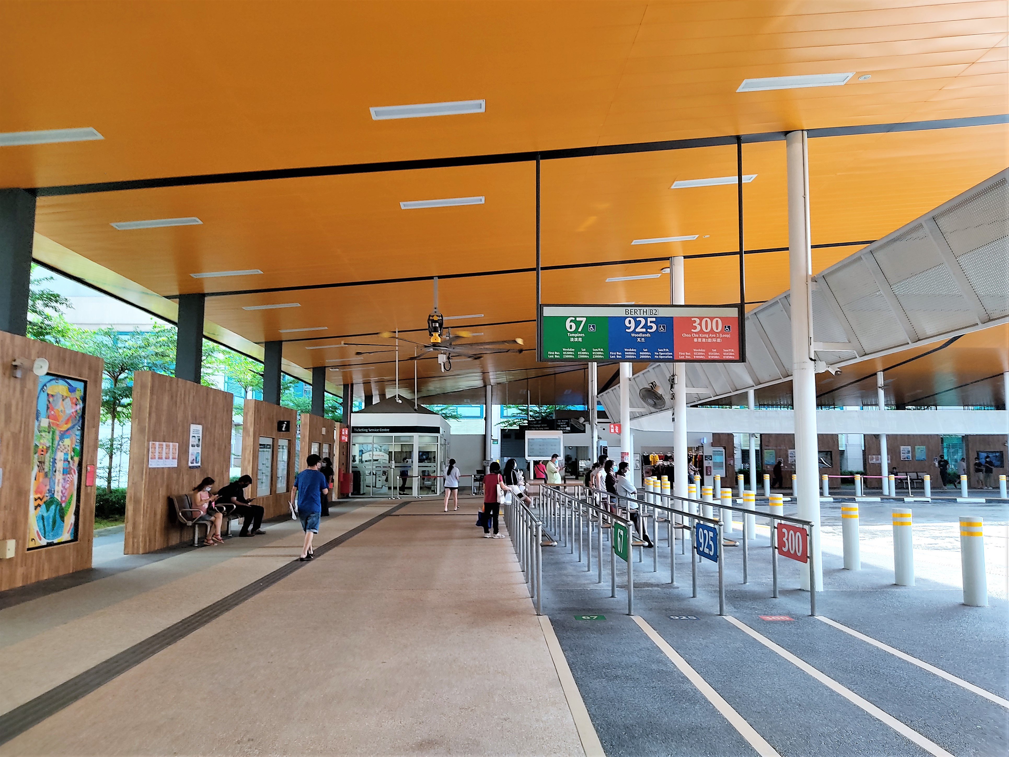 Berth B2 at CCK Bus interchange